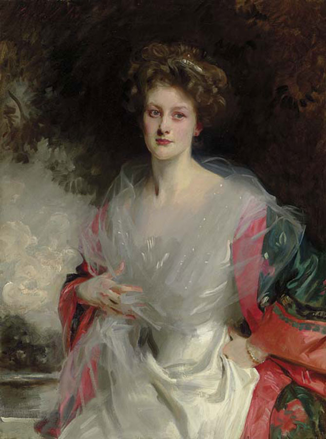 Mildred Carter John Singer Sargent -- American painter 1908 Owner? Oil on canvas 101.6 x 76.2 cm. (40 x 30 in.) signed 'John S. Sargent' (upper left) Jpg: Christies